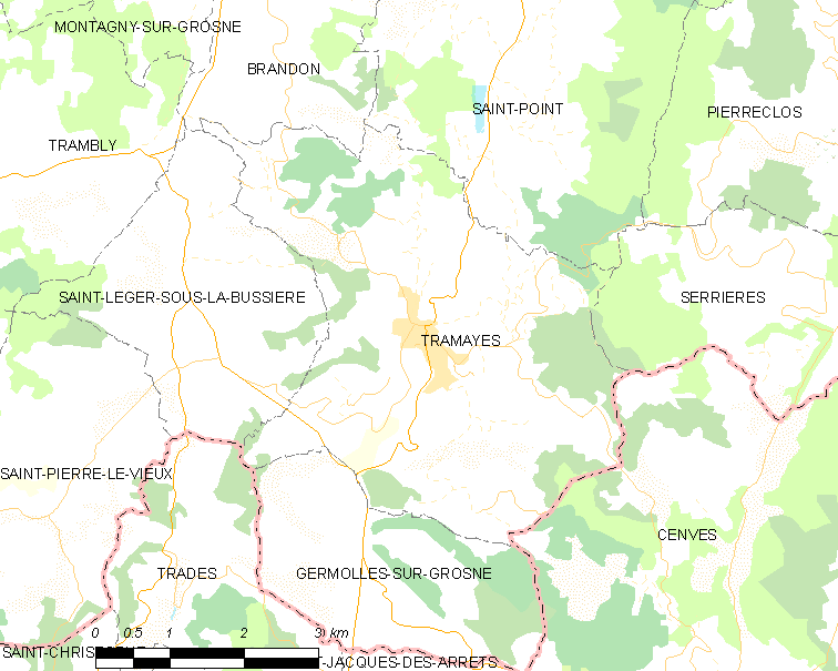 Map of French municipality